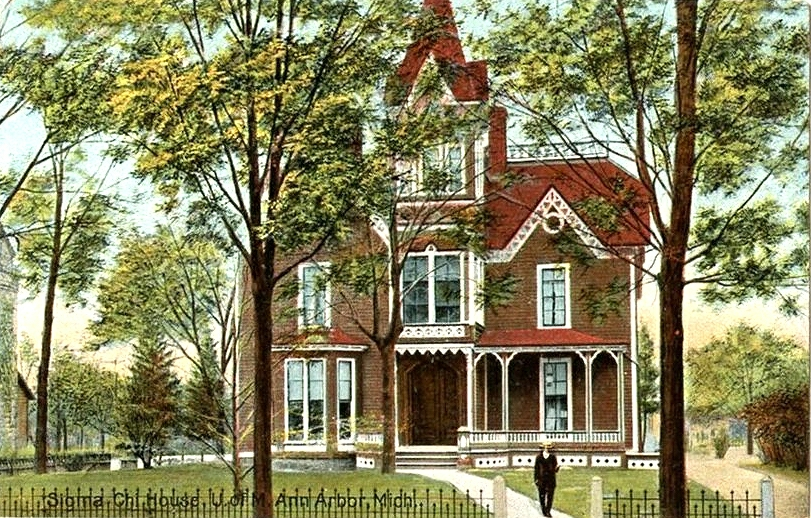 The Leighton Company lasted from 1906 to 1909.